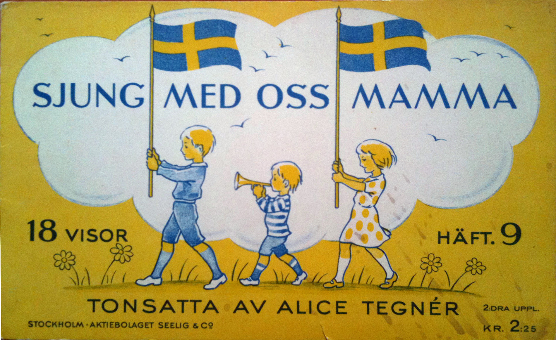 Songbook cover of Alice Tegnér: "Sjung med oss, Mamma!", part 9